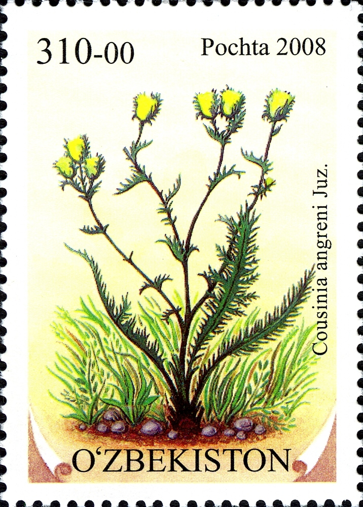 Stamps of Uzbekistan, 2008